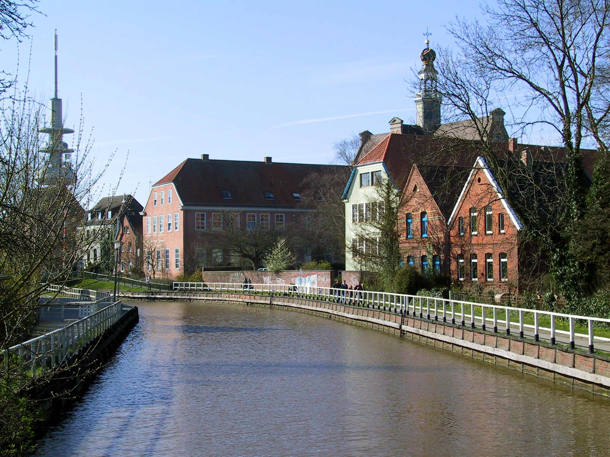 Emden, Germany. Taken on March 29, 2002 from a bridge over the "Rotes Siel". – (from left to right:) TV tower; Gödensches or Gödenser Haus, built in 1551, now a "Studentenwohnheim"; the white house was a school; tower of the reformed New Church "Neue Kirche", built in the 1640s.